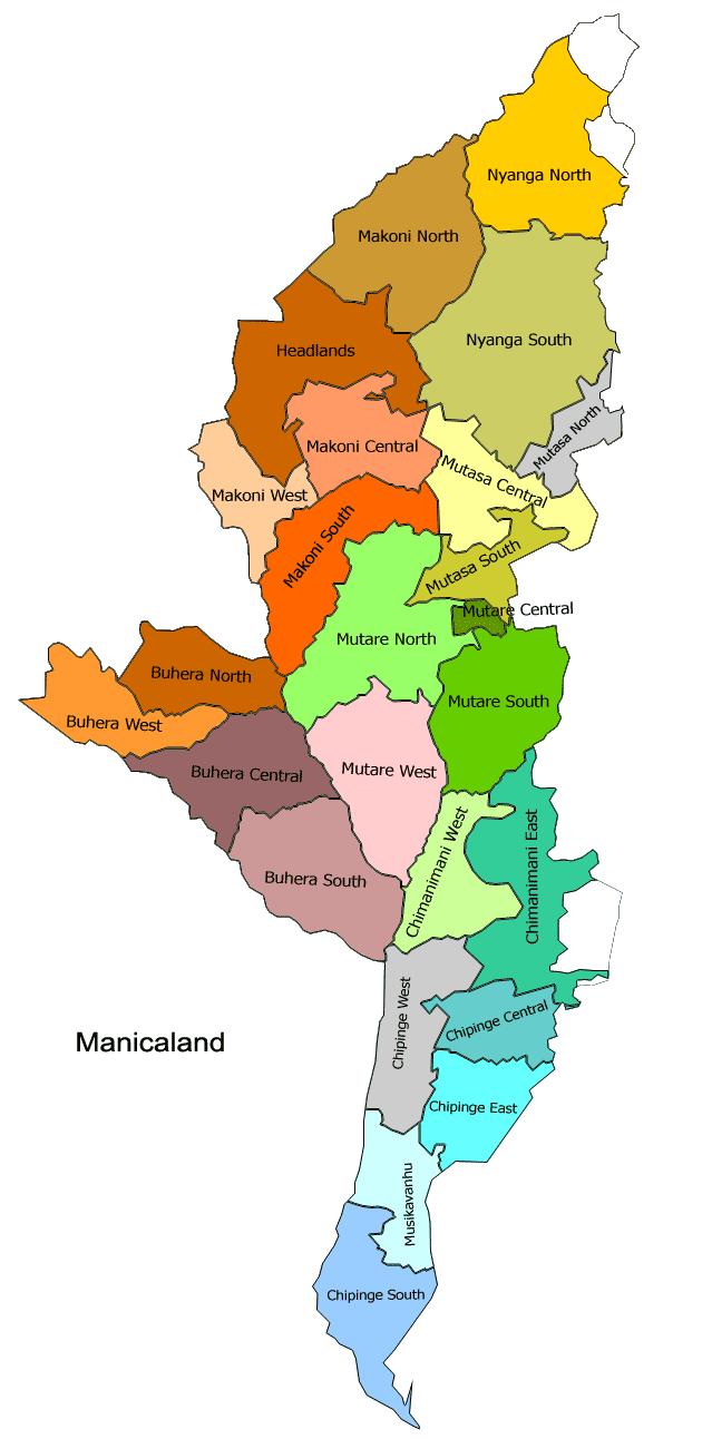 Manicaland constituency seats for the 2008 elections.